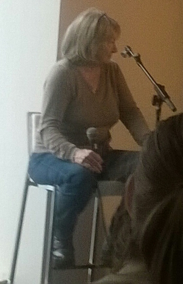 Micheline Lanctôt photographed in Montréal , Québec, Canada at the Salon du livre de Montréal 2018.